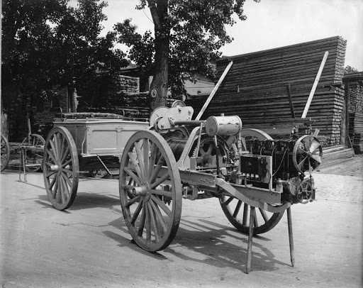 Signal Corps Baloon Winch Wagon